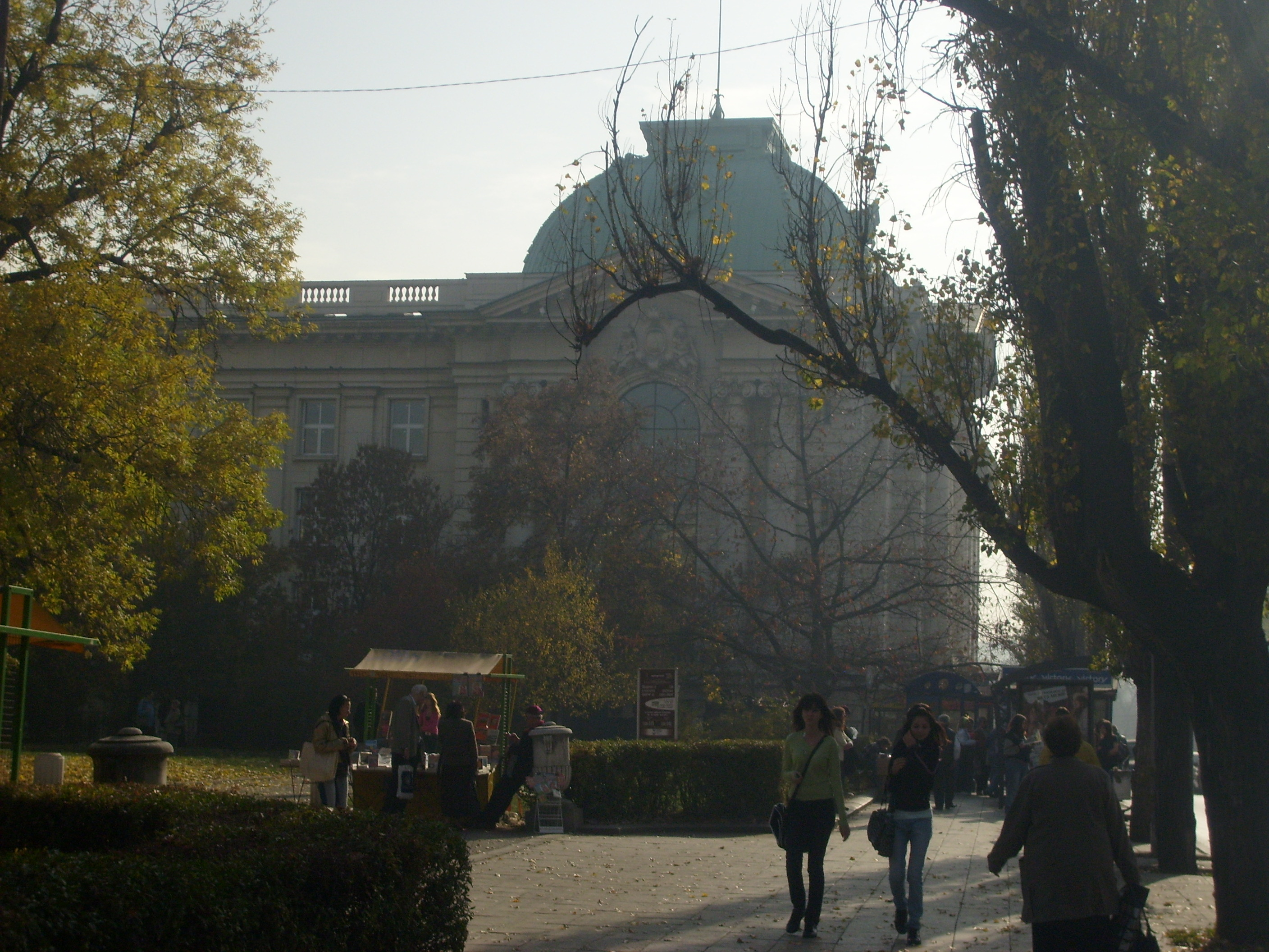 Sofia, Bulgaria Sofia University side view